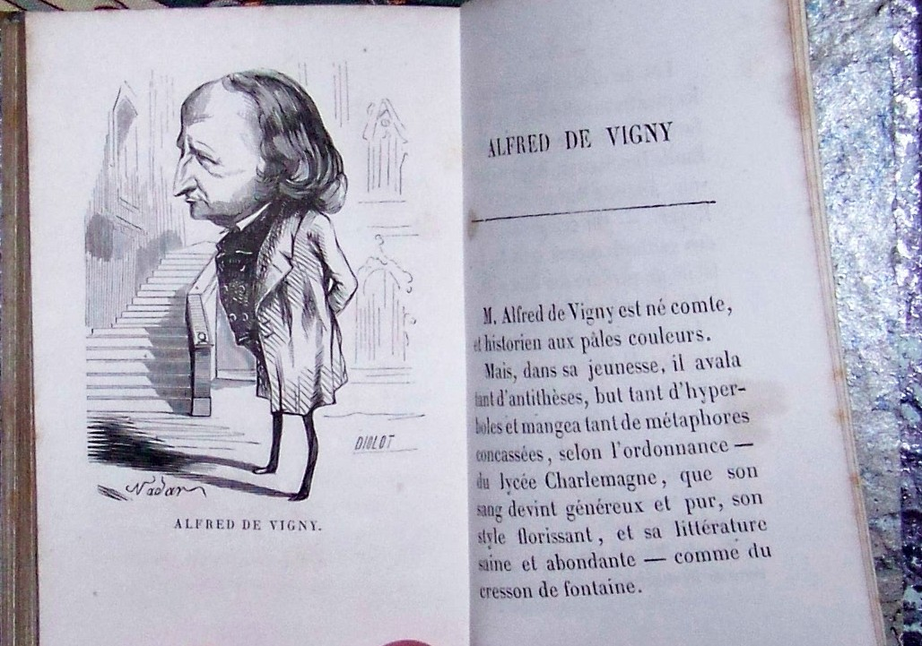 Illustration des binettes contemporaines de Commerson.